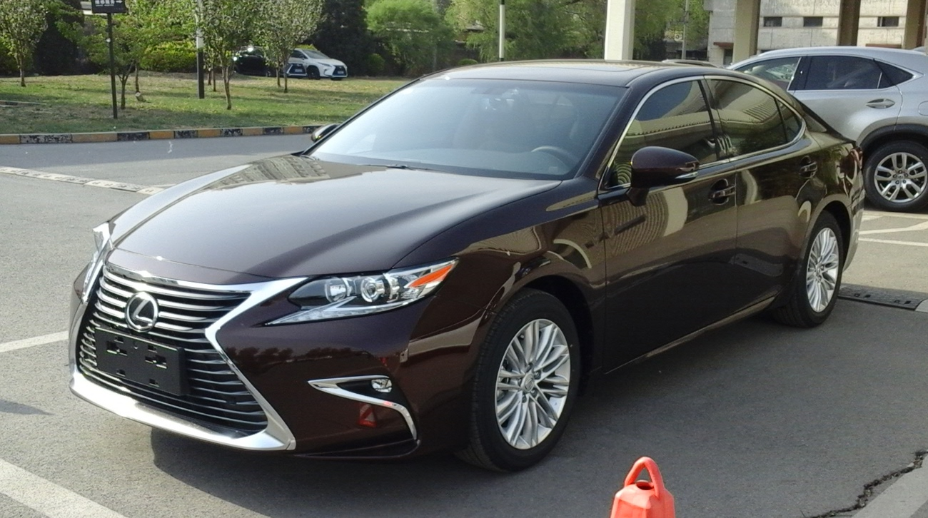 Lexus ES XV60 facelift photographed in Beijing, China.